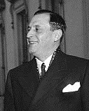 cropped version of this file